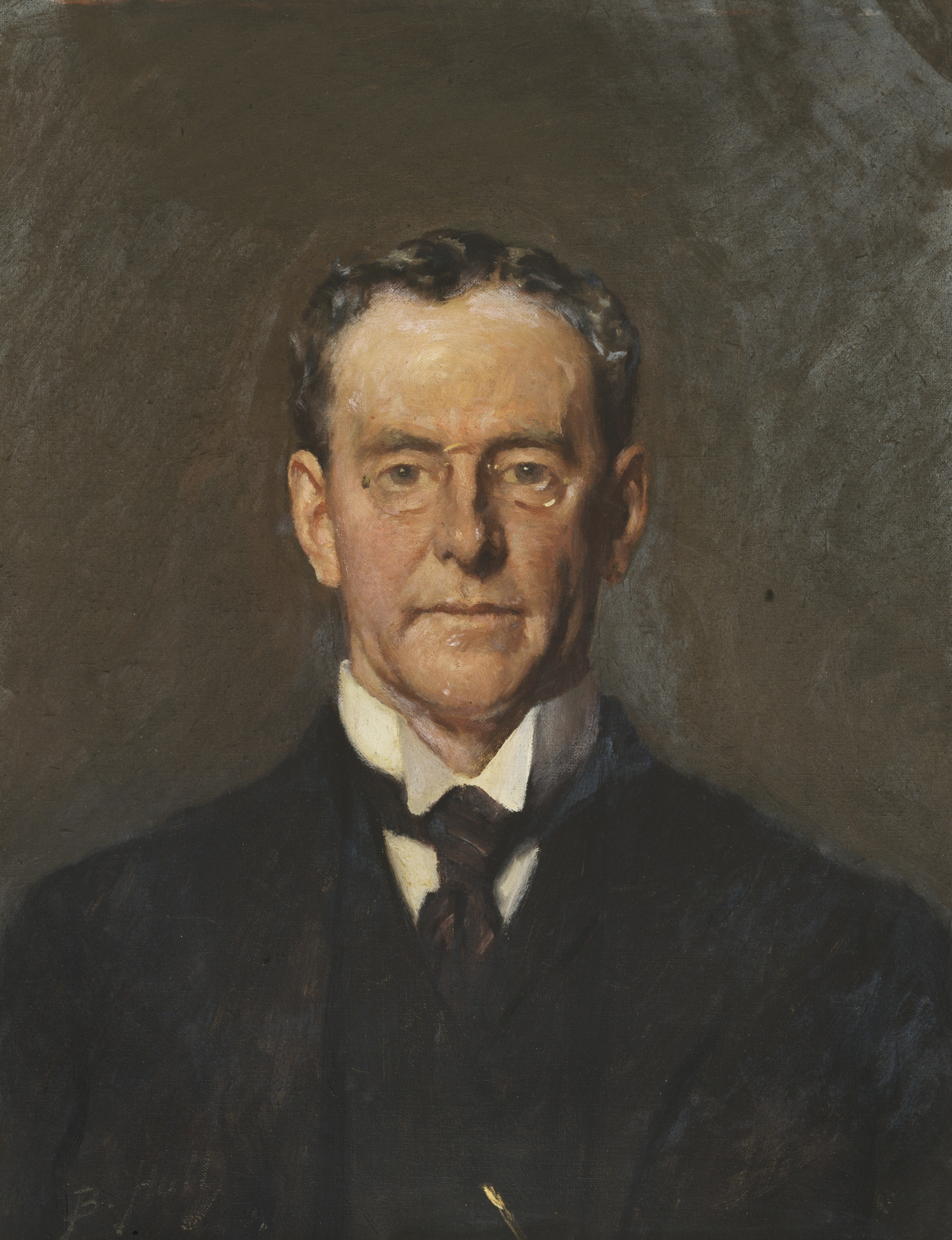 Edmund la Touche Armstrong, painted by Lindsay Bernard Hall